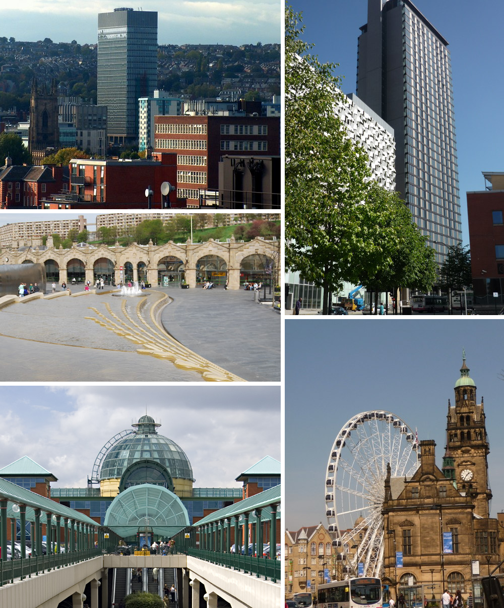 Clockwise from top left: The University of Sheffield Arts Tower viewed from Fargate; St. Paul's Tower from Arundel Gate; the Wheel of Sheffield and Sheffield Town Hall; Meadowhall shopping centre; Sheffield station and Sheaf Square